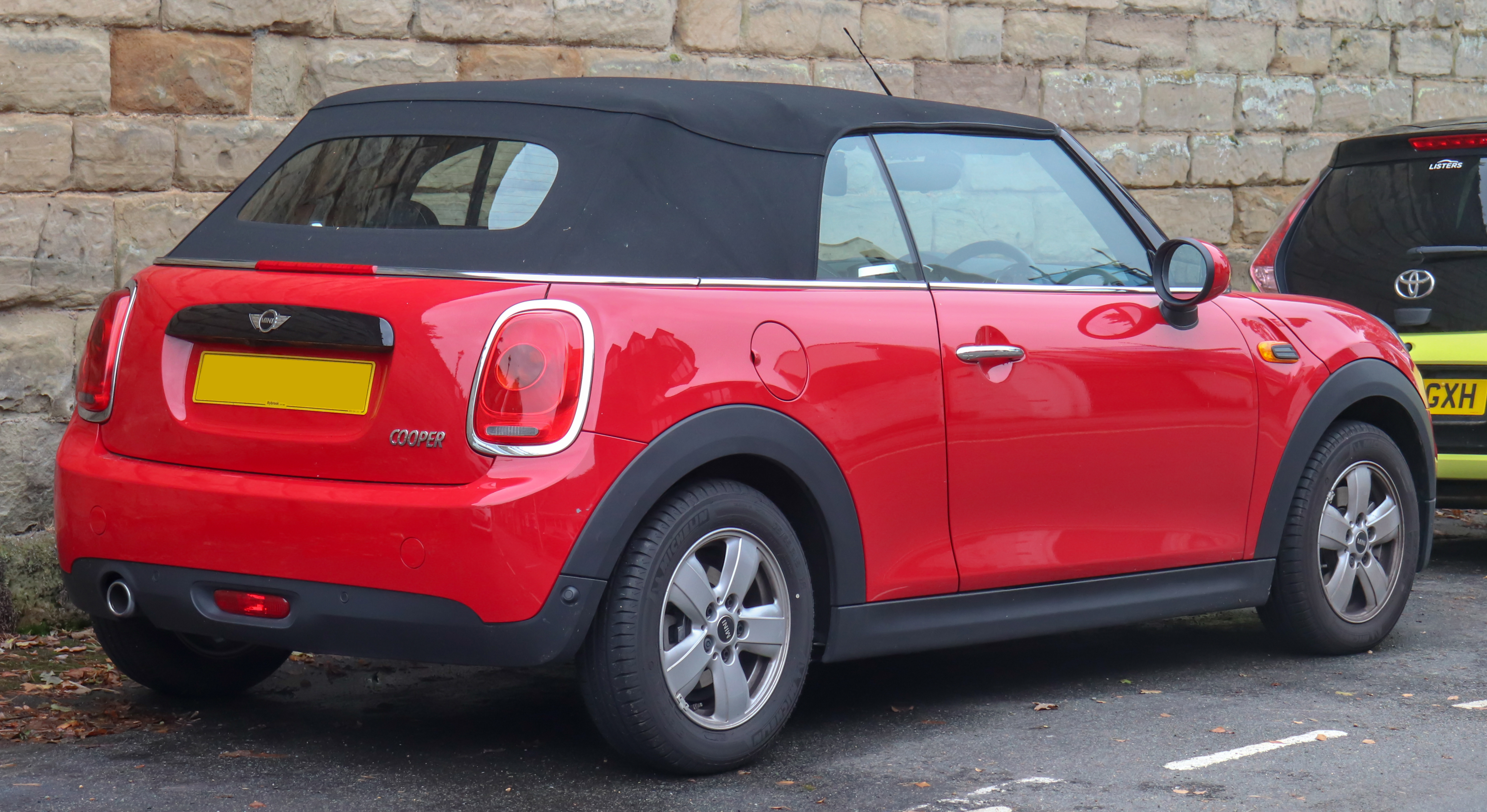 2018 Mini Cooper Convertible 1.5 Rear Taken in Warwick